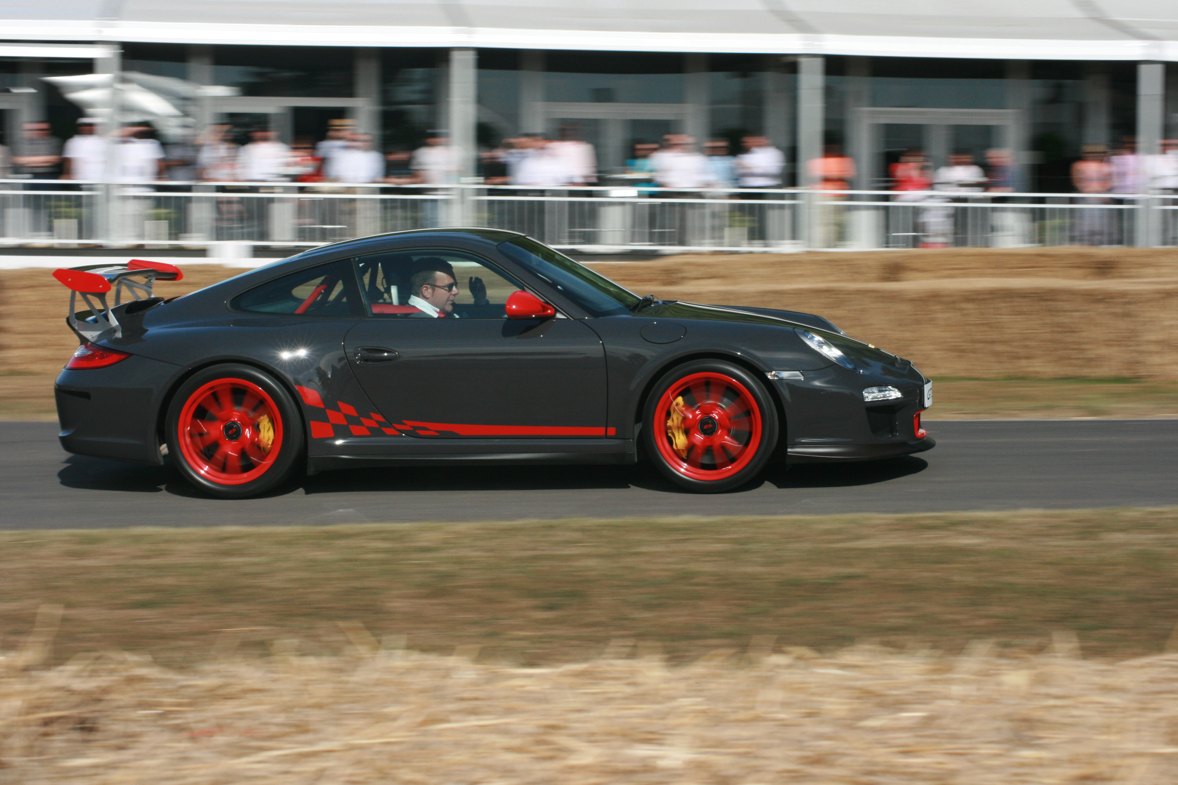 Accelerating Porsche 911 GT3 RS (997, MY 2010) at the 2010 Goodwood Festival of Speed.Porsche 911 GT3 RS